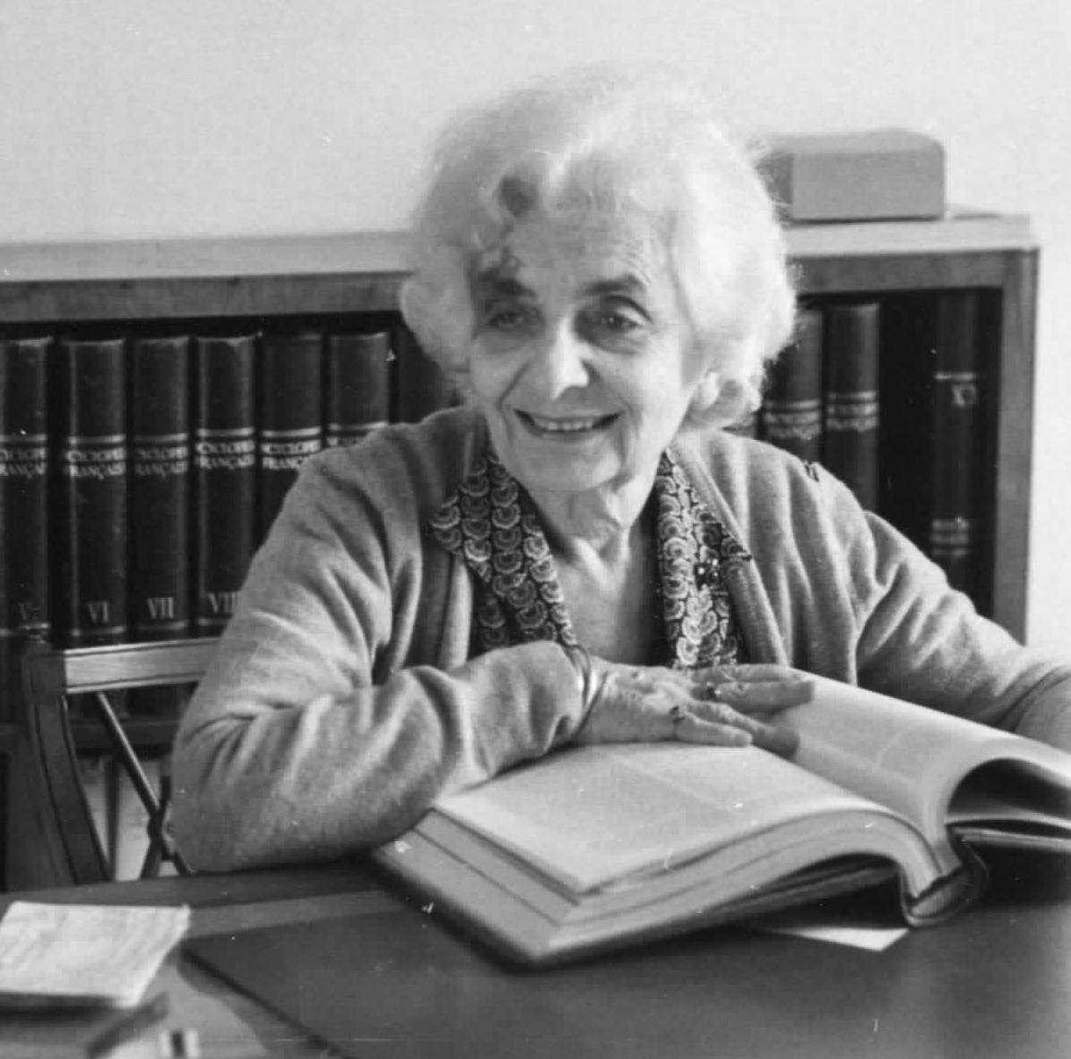 Lorenza Maranini